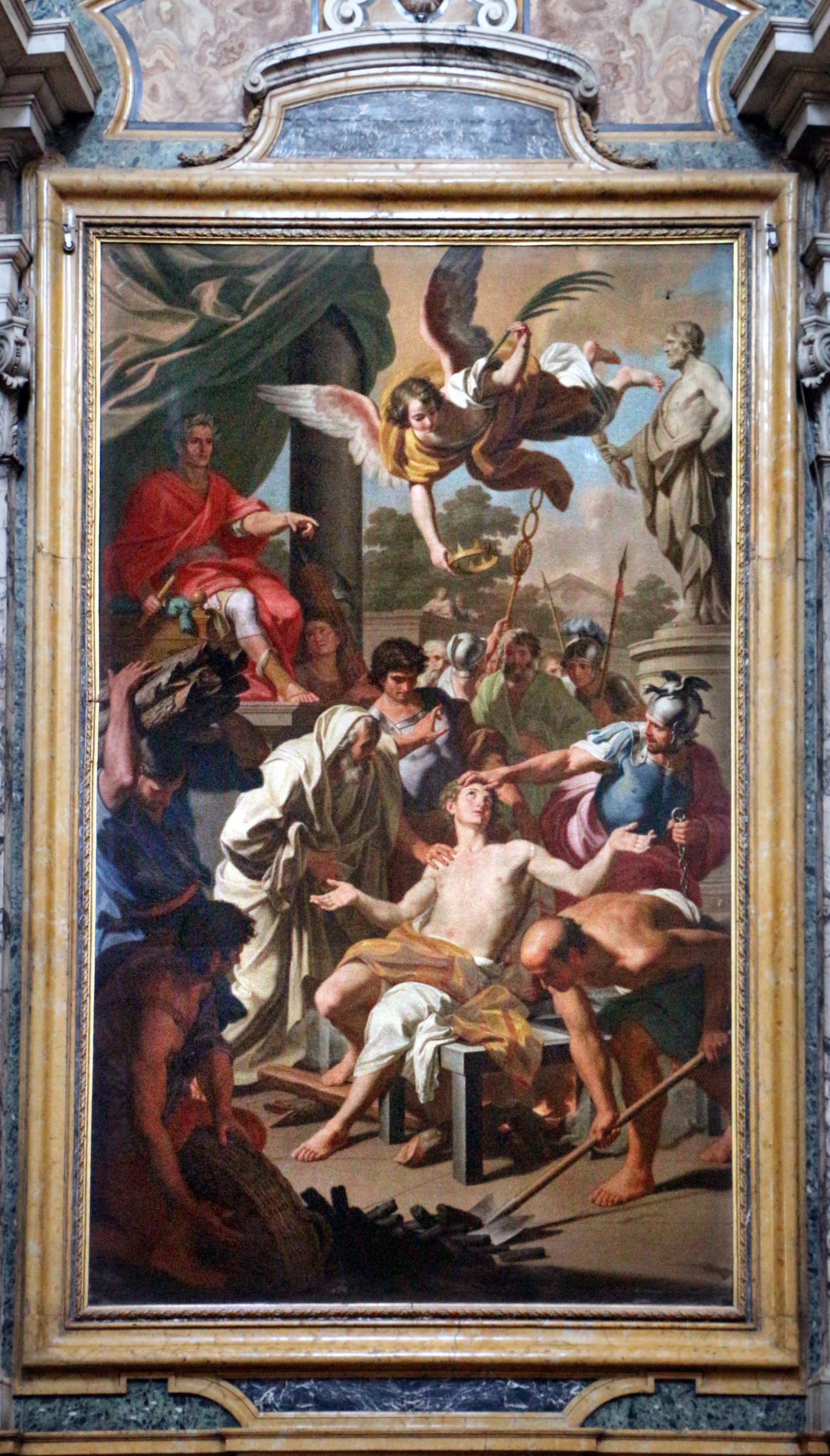 Duomo (Jesi)